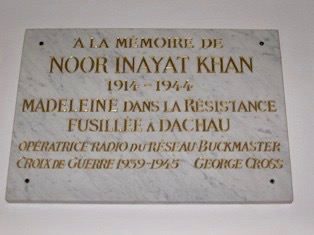 Plaque honoring Noor Khan. It is located in the Memorial Hall at Dachau Concentration Camp.